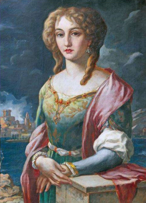 Cvijeta Zuzorić